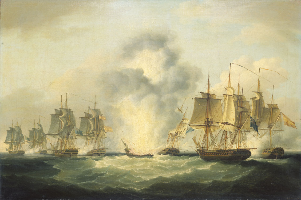 Four Spanish frigates with a rich shipment from Montevideo headed for Cadiz. The cargo was ultimately destined for France and therefore potentially for use against the British. Four British frigates lay in wait to capture them and the two squadrons met on 5 October. The senior British commander Captain Graham Moore asked the Spanish Admiral to surrender. When he refused, action commenced, and within ten minutes the Spanish ‘Mercedes’ had blown up with the loss of all but one officer and 45 men. Half an hour later the Spanish ships ‘Medea’ and ‘Clara’ both surrendered. The Spanish ‘Fama’ tried to escape but also surrendered after she was chased by the British ‘Lively’. Sartorius has arranged the eight ships of the two opposing squadrons across the canvas in pairs. In the right foreground the ‘Lively fires into the ‘Clara’. Ahead of them is the exploding ‘Mercedes’ with the stern of the British ‘Amphion’ beyond her. To the left and ahead the British ‘Indefatigable’ and Spanish ‘Medea’ on the right are in close action. Beyond them the British ‘Medusa’ and Spanish ‘Fama’ are also firing at each other.